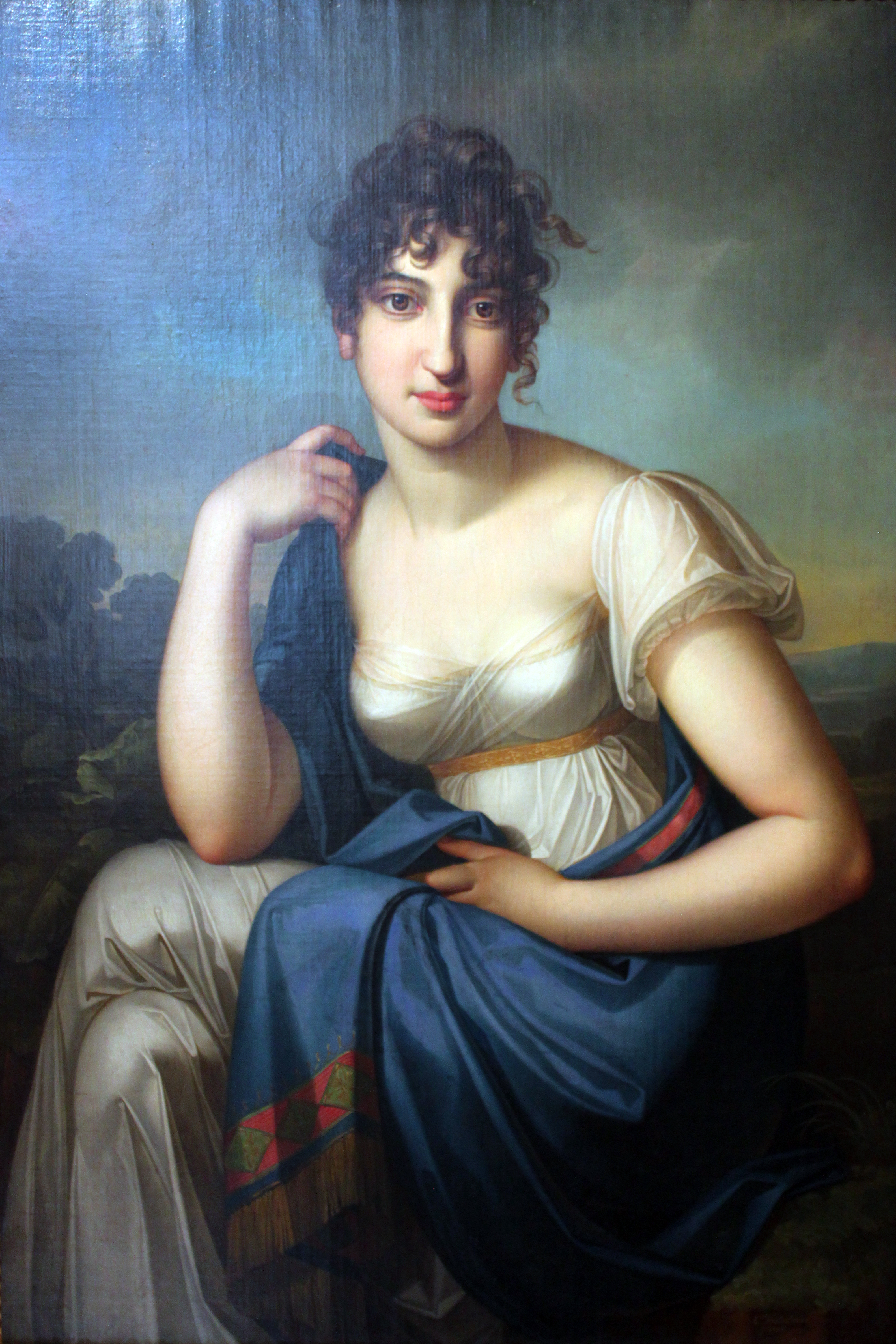 Portrait of Amalie Beer (1767-1854)